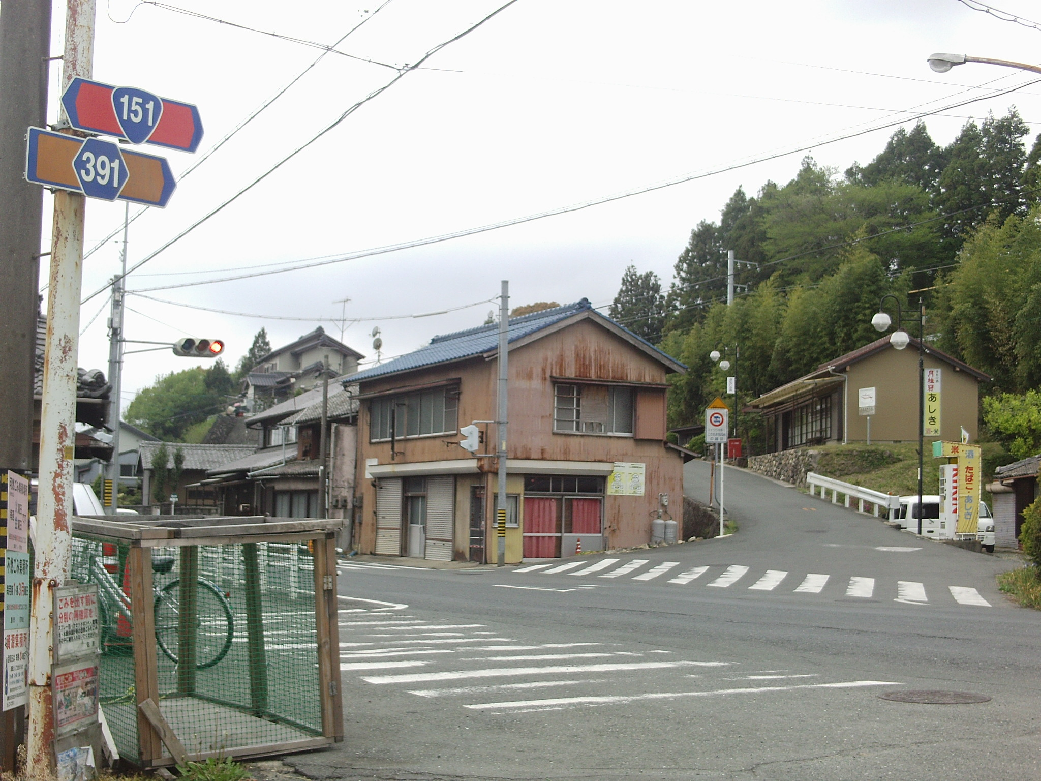 Aichi prefectural road No.391 in Tojocho, Toyokawa, Aichi.